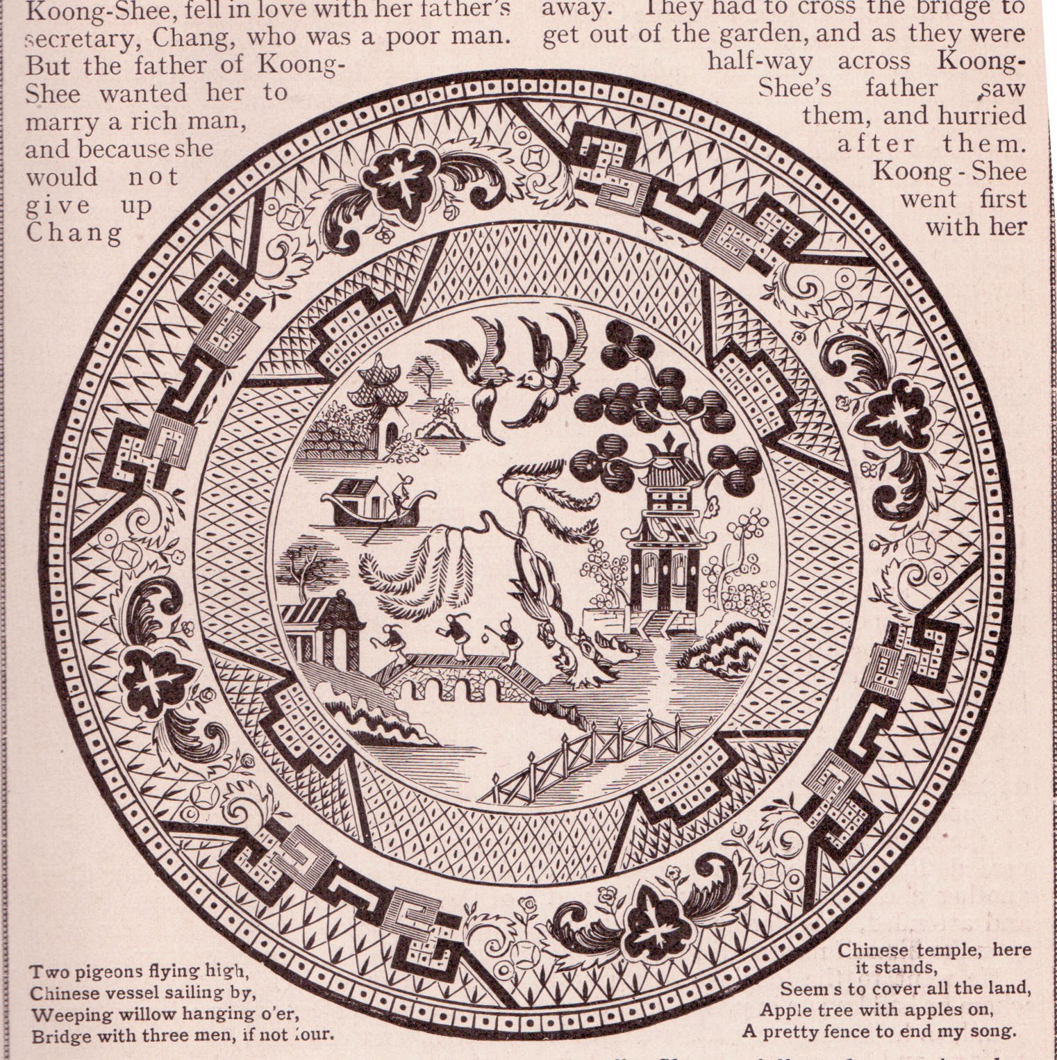 This illustration is from the public domain book, The Book of Knowledge, The Children’s Encyclopedia, Edited by Arthur Mee and Holland Thompson, Ph. D., Vol II, Copyright 1912, The Grolier Society of New York. The original copyright for these books was 1899. This is page 329. The illustration is the Willow china pattern. Flickr data on 2011-08-18: Tags: 1912, book, Book of Knowledge, copyright free, creative commons, dance, flickr, free License: CC BY 2.0 User: perpetualplum Sue Clark